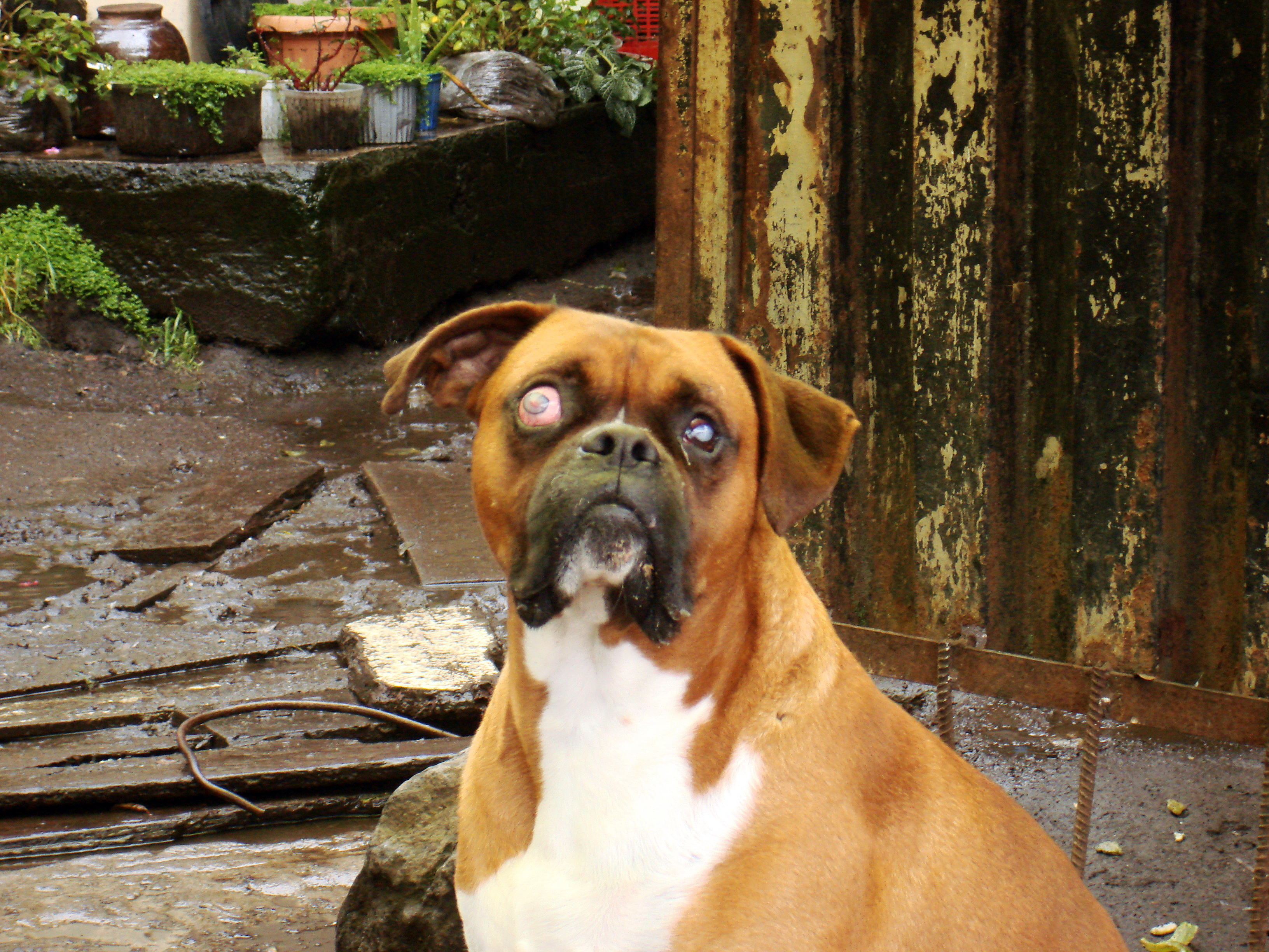 Banos, Ecuador. Crazy eyed guard dog at a junkyard on the corner near our hostel.